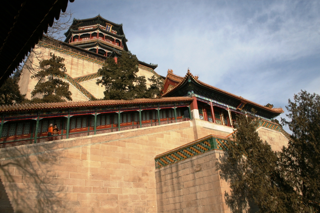 Stairs in the Summer Palace, at the Pagoda of Buddha's Fragrance, in Beijing